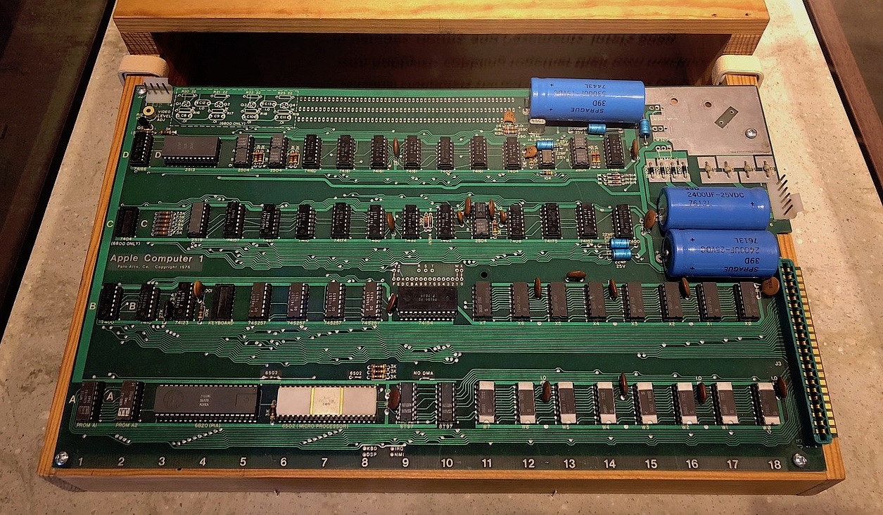 Cropped version of Apple 1 Woz 1976 at CHM.agr.jpg